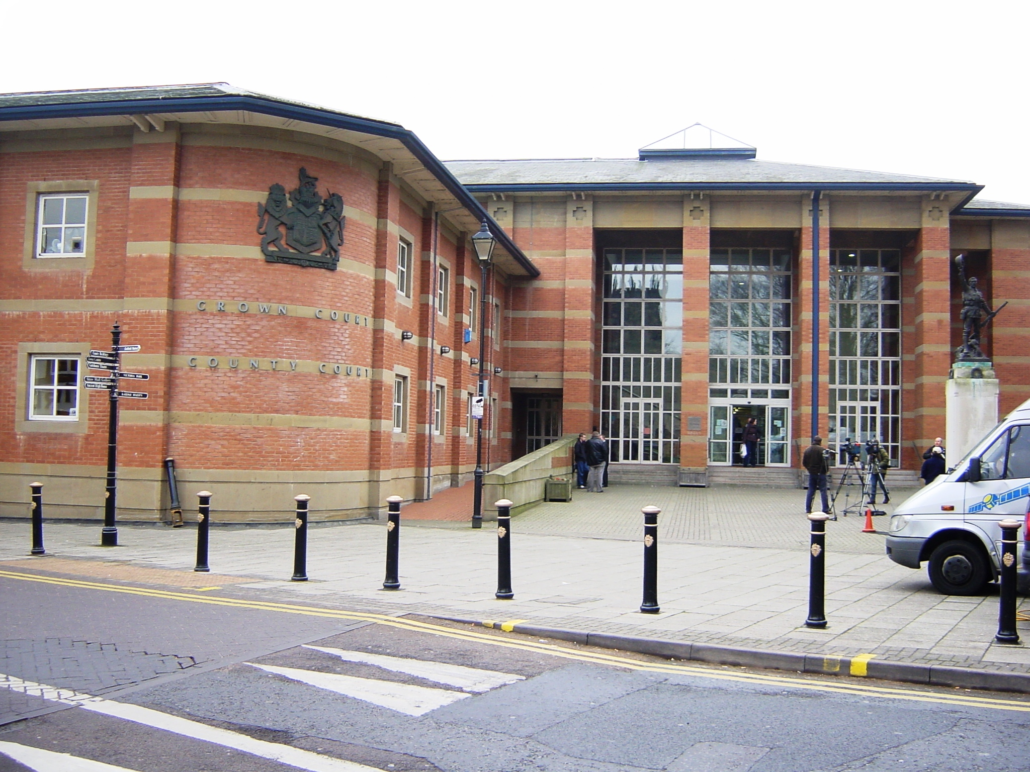 Stafford Combined Court Centre, home of Stafford Crown Court and Stafford County Court.